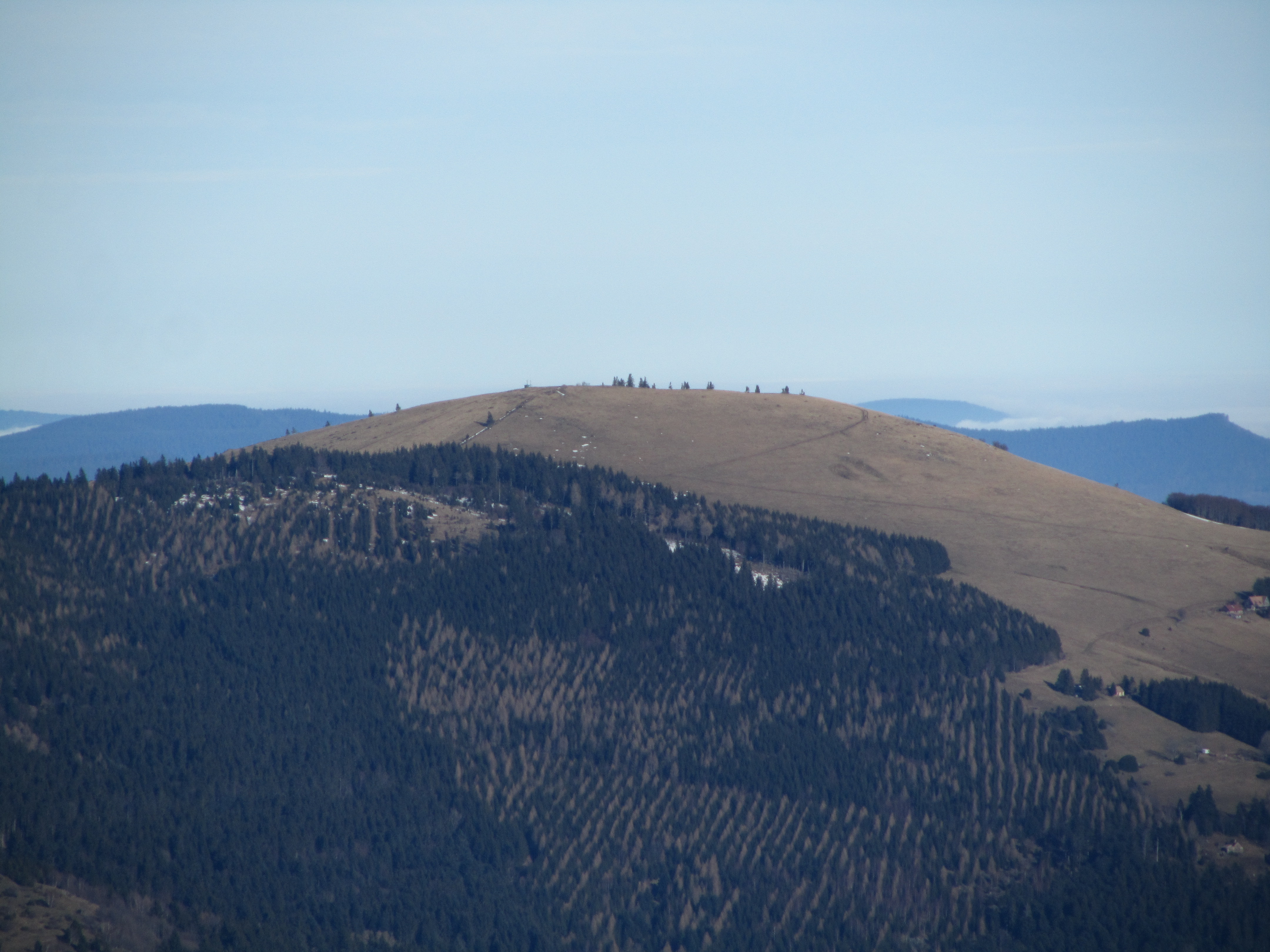 The Petit Ballon, seen from Storkenkopf, (from south)